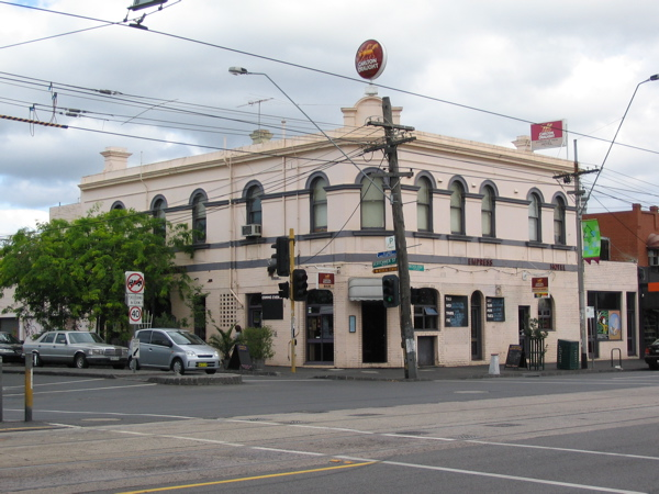 Empress Hotel, Nicholson Street, Fitzroy North, Victoria, Australia.